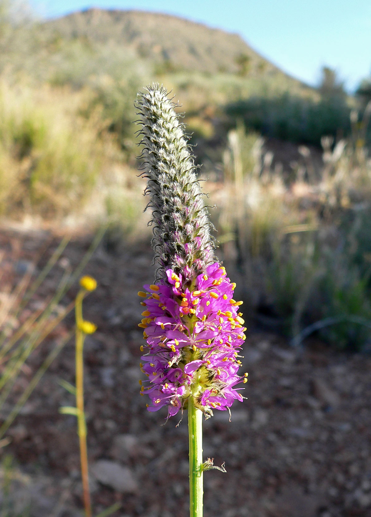 Dalea searlsiae in lower Lovell Canyon near state road 160, Spring Mountains, southern Nevada